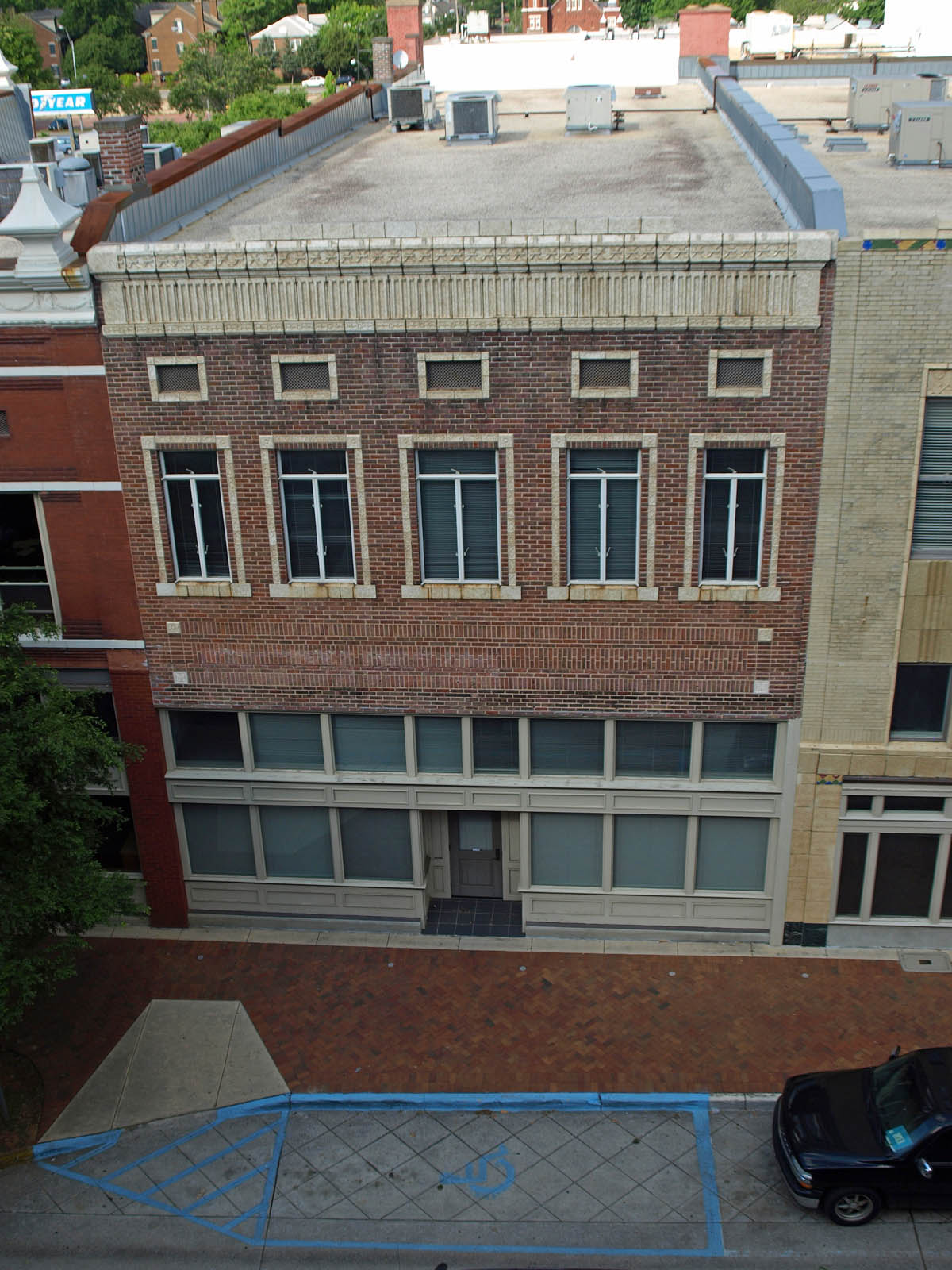 105 South Washington Street in Huntsville, Alabama, is listed on the National Register of Historic Places